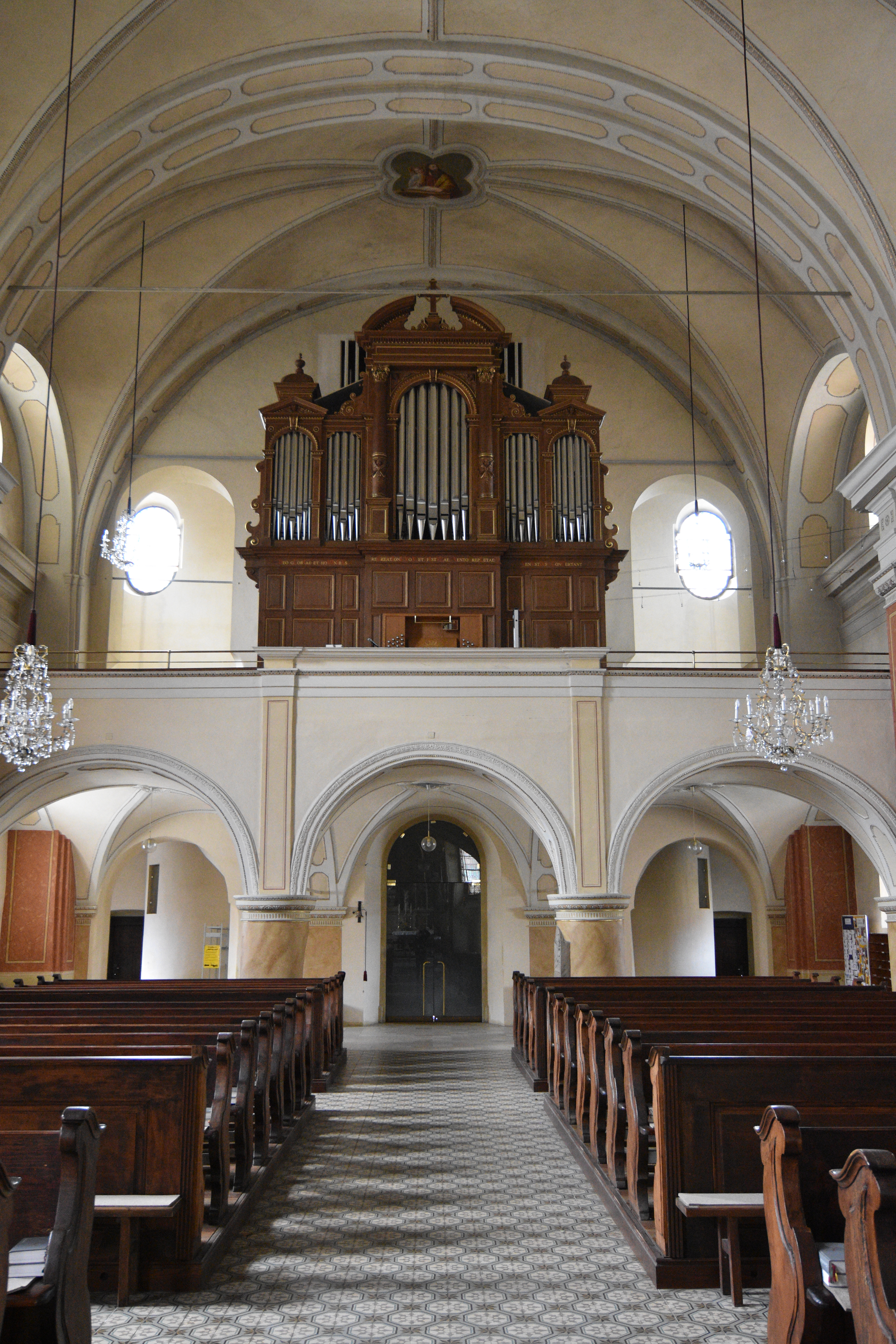 Church Gleisdorf